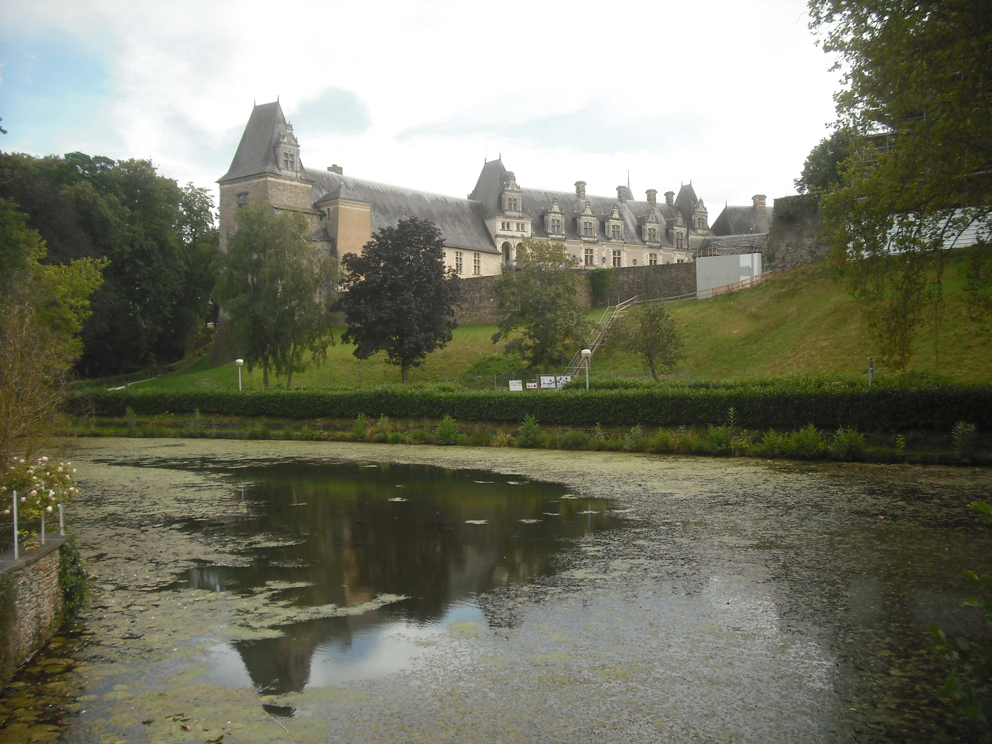 The château of Châteaubriant, Loire-Atlantique, France, and the Etang de la Torche.